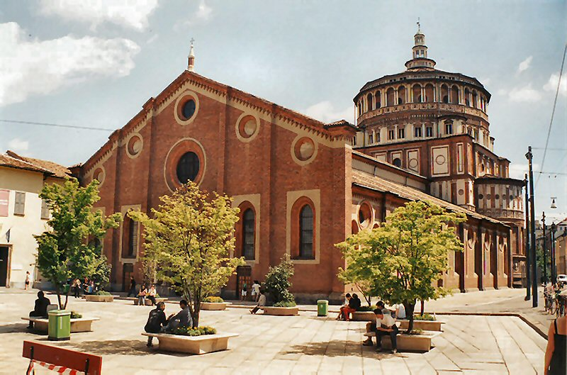 Santa Maria delle Grazie in Milan, Italy. Photo taken by User:Abelson in July 2002.